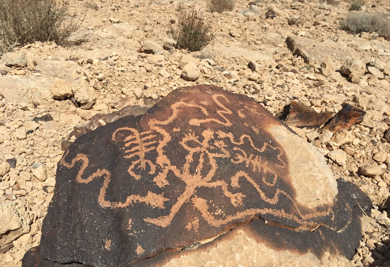 A petroglyph portrays scorpions, snakes and a lizard. Har Karkom ridge, Israel.